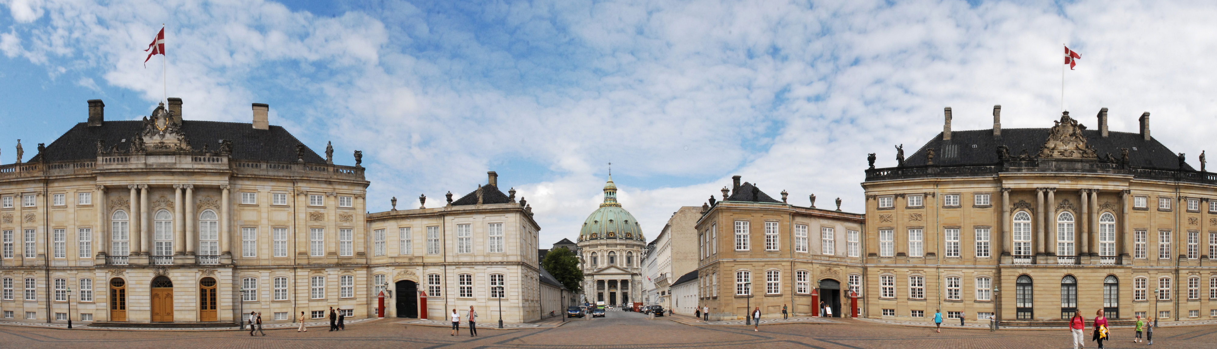 Moltke's Palace, Frederik's Church (The Marble Church), Levetzau's Palace (left to right) as seen from Amalienborg. Copenhagen, Denmark, Northern Europe.